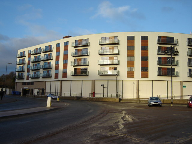 New Flats with Sea View Built on the Corner Cafe site